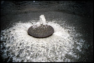 Image of a manhole cover blown off by a June 2006 sanitary sewer overflow in Rhode Island.